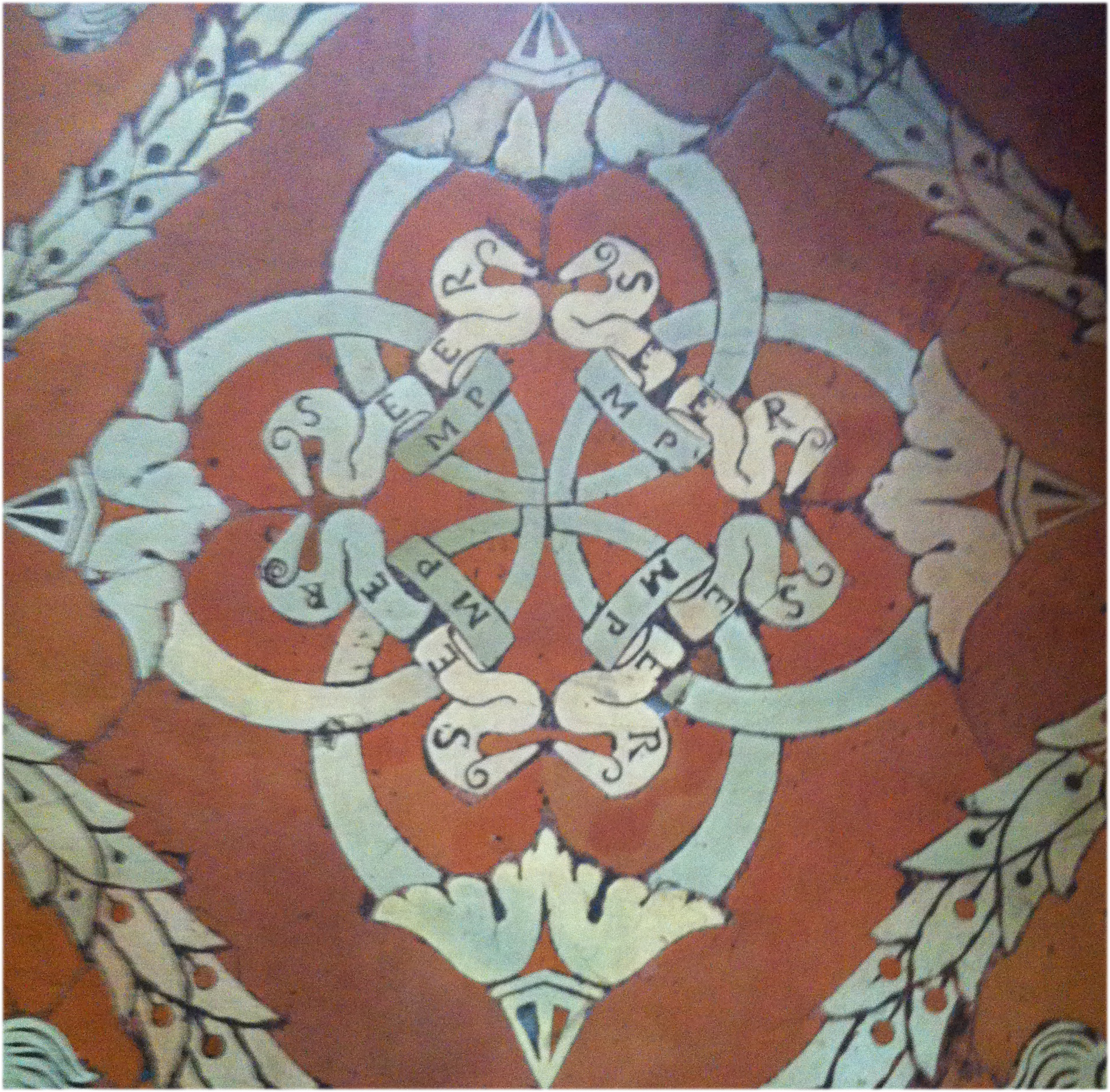 Motto "Semper" of the Medici family; floor of the Laurentian Library (Saint Lawrence, Florence), drawn by Michelangelo Buonarroti